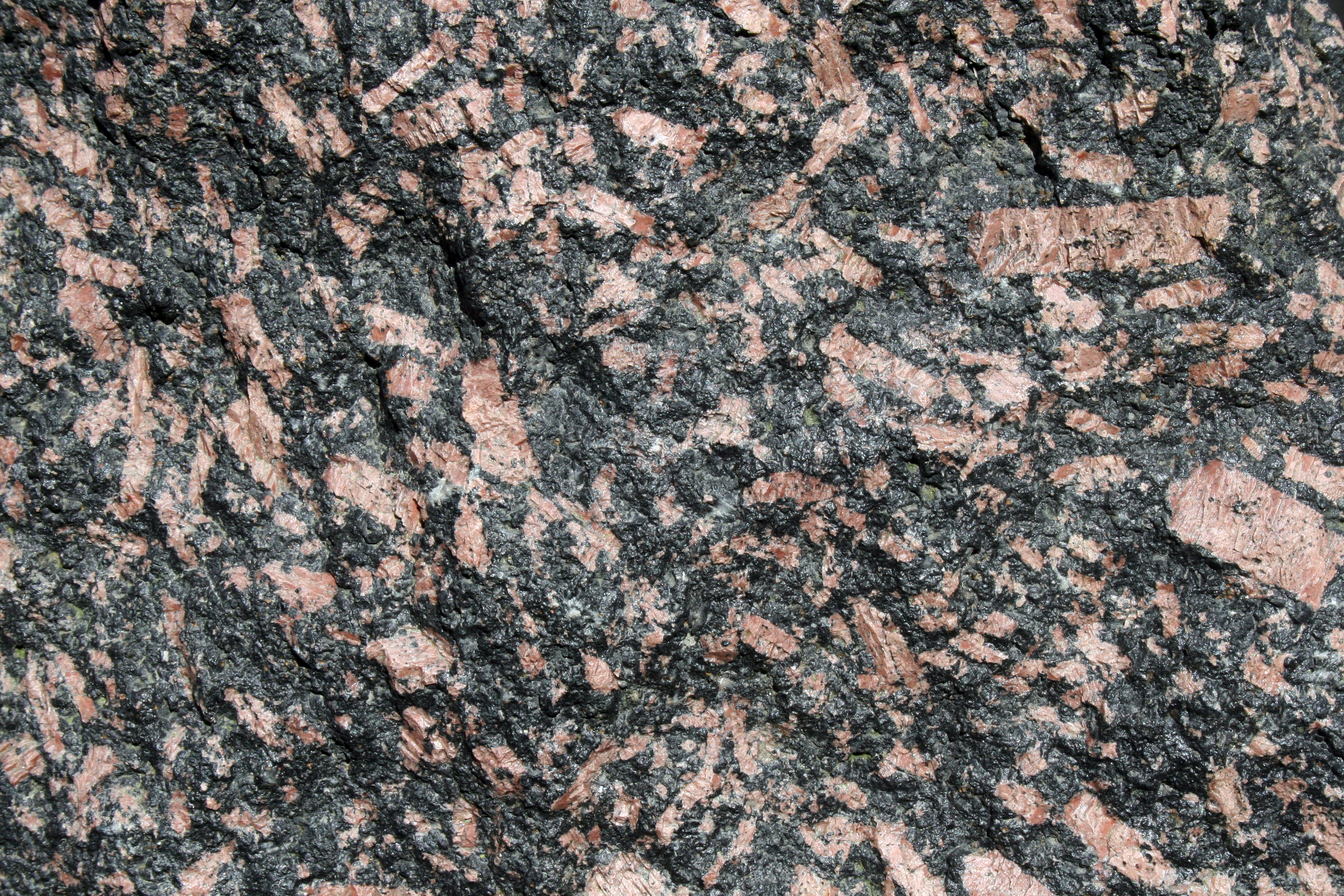 Luxullianite from Cornwall, UK with pink feldspar and black tourmaline crystals.